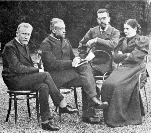 The morning report at the Burghölzli asylum; from left to right Dr. Anton Delbrück, Auguste Forel, Dr. Bach, and Dr. Gottschall.